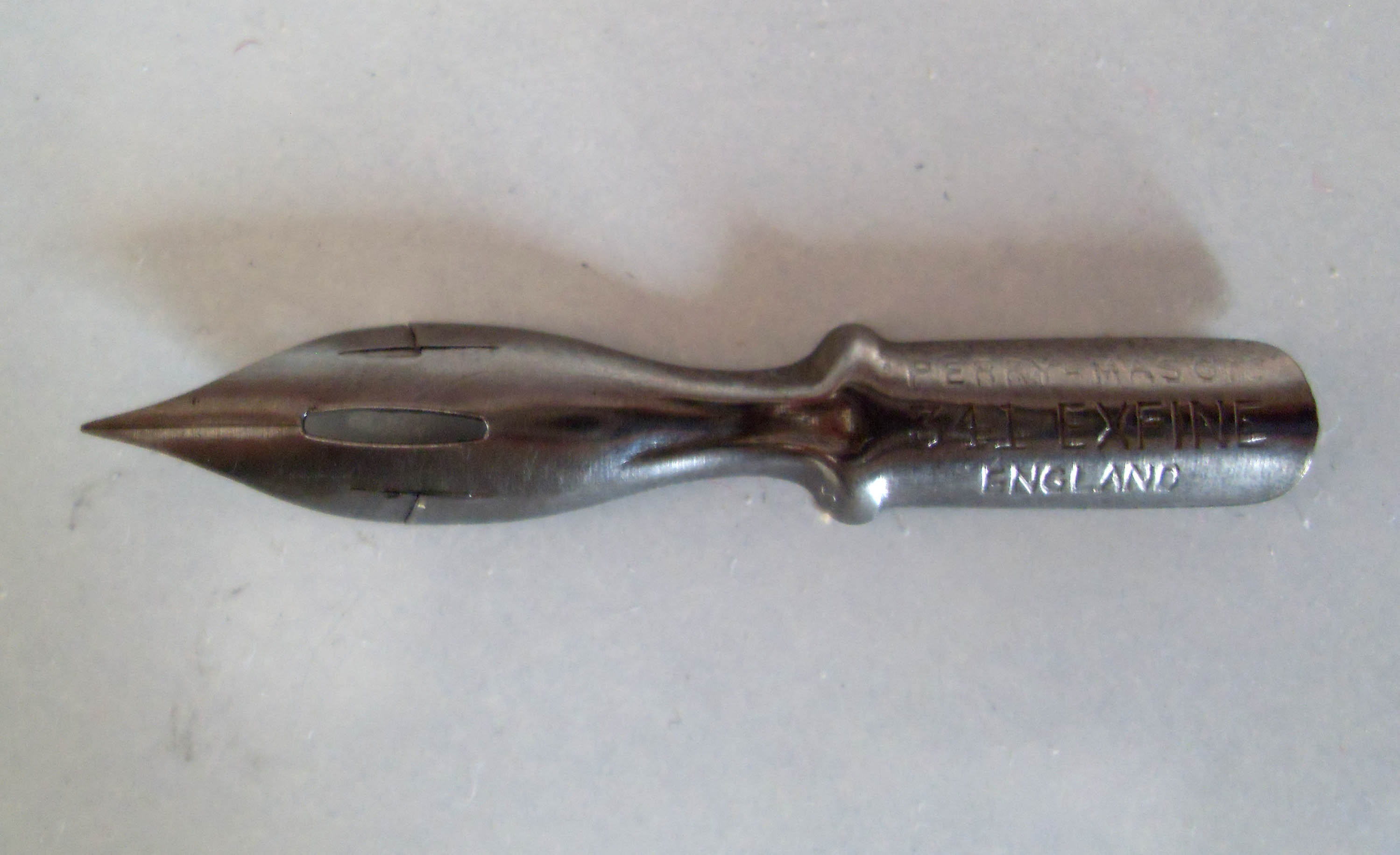 A Perry-Mason n° 341 EF (extra fine) dip pen.